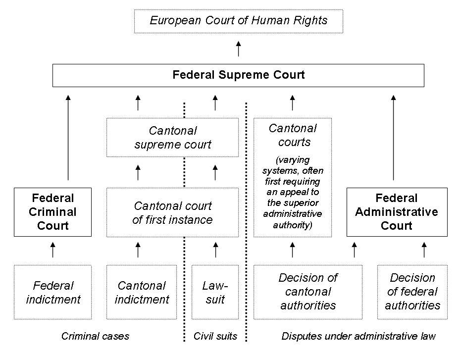 A schematic overview of the Swiss judicial system.